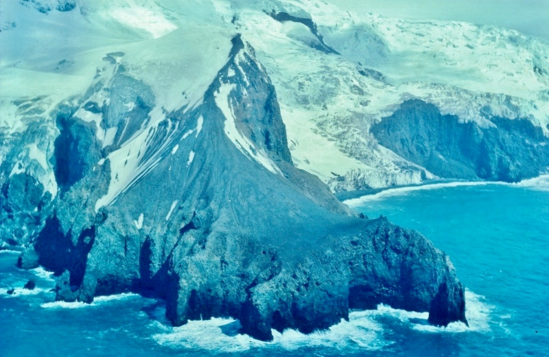 Cape Valdivia, Bouvet Island, Norwegian uninhabited island in the South Atlantic Ocean.